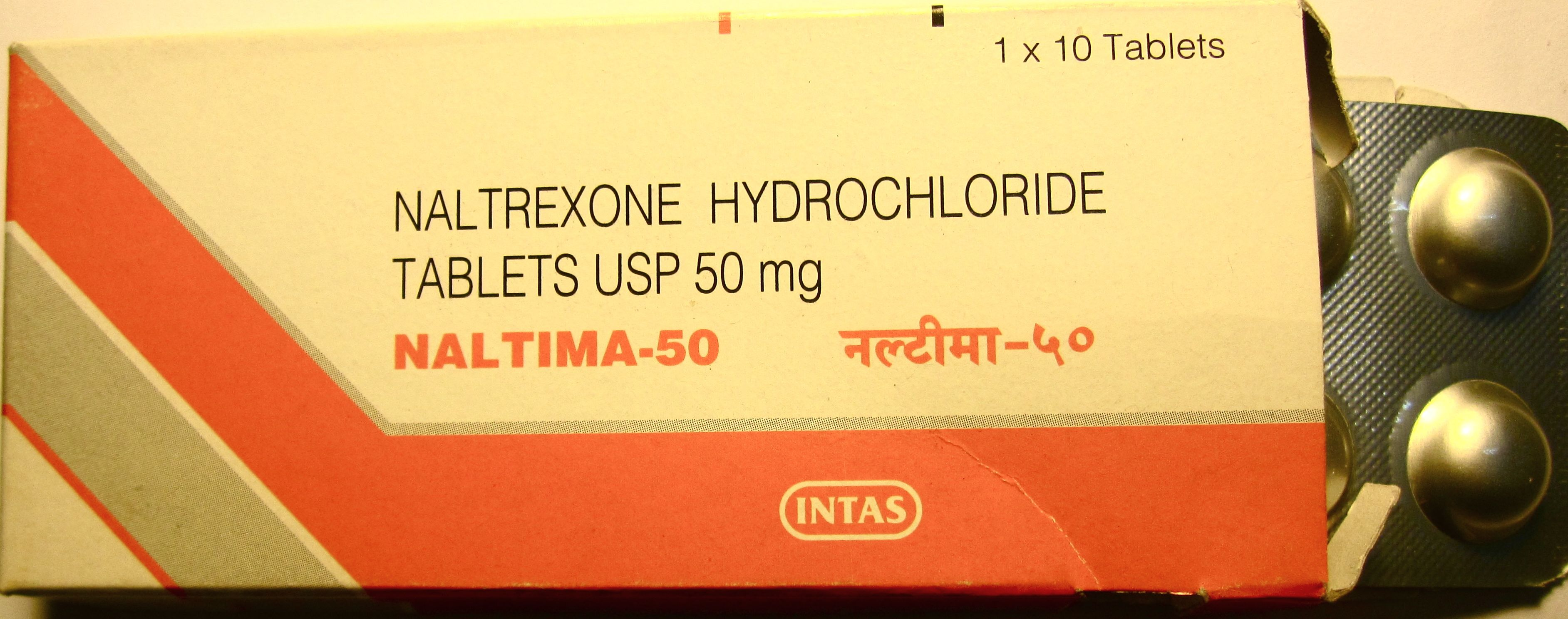 Naltrexone Hydrochloride marketed under the name Naltima-50 (Intas Pharmaceuticals, India)